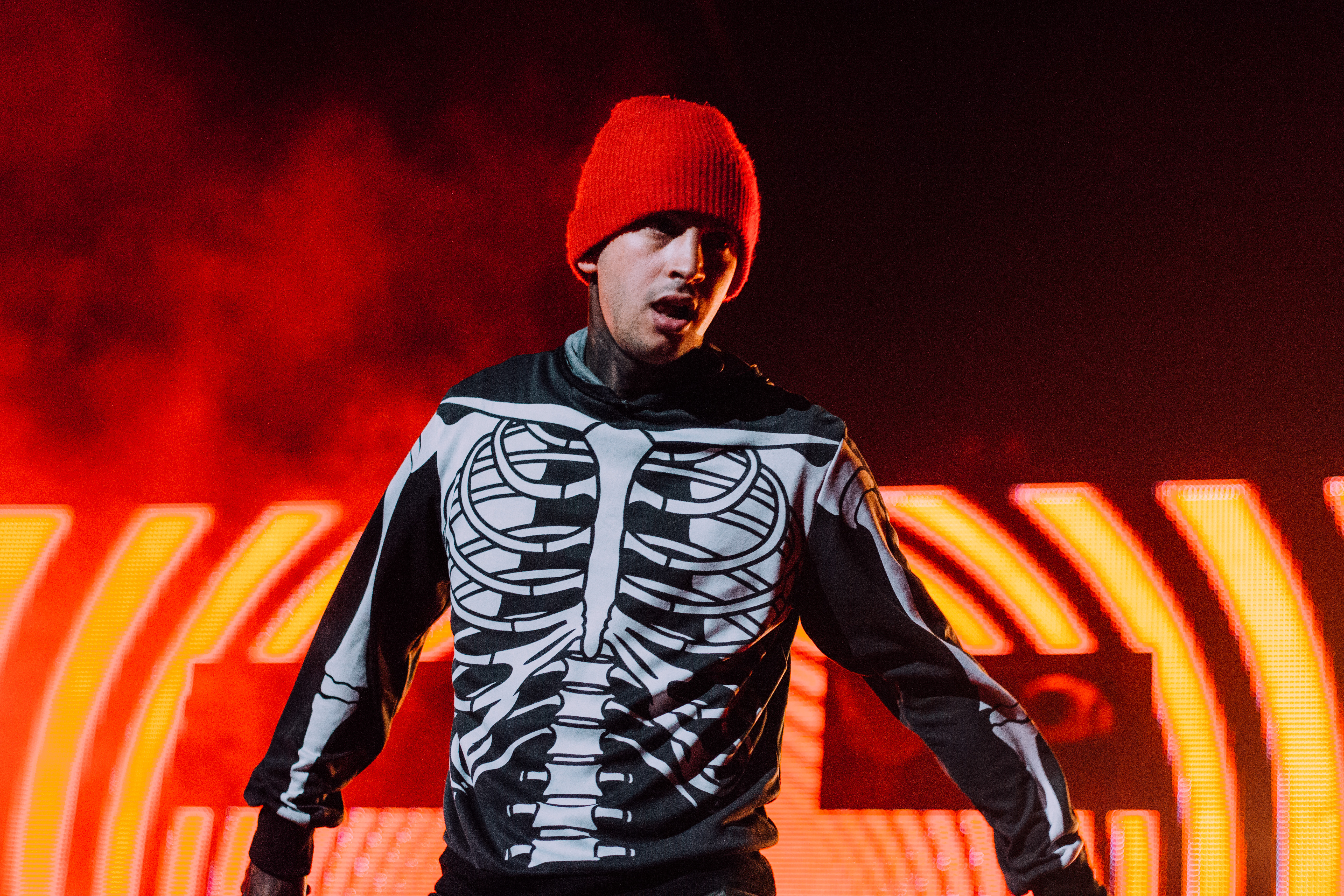 Tyler Joseph of Twenty One Pilots performing at City Park on October 31, 2014 in New Orleans, Louisiana on the Quiet Is Violent Tour.